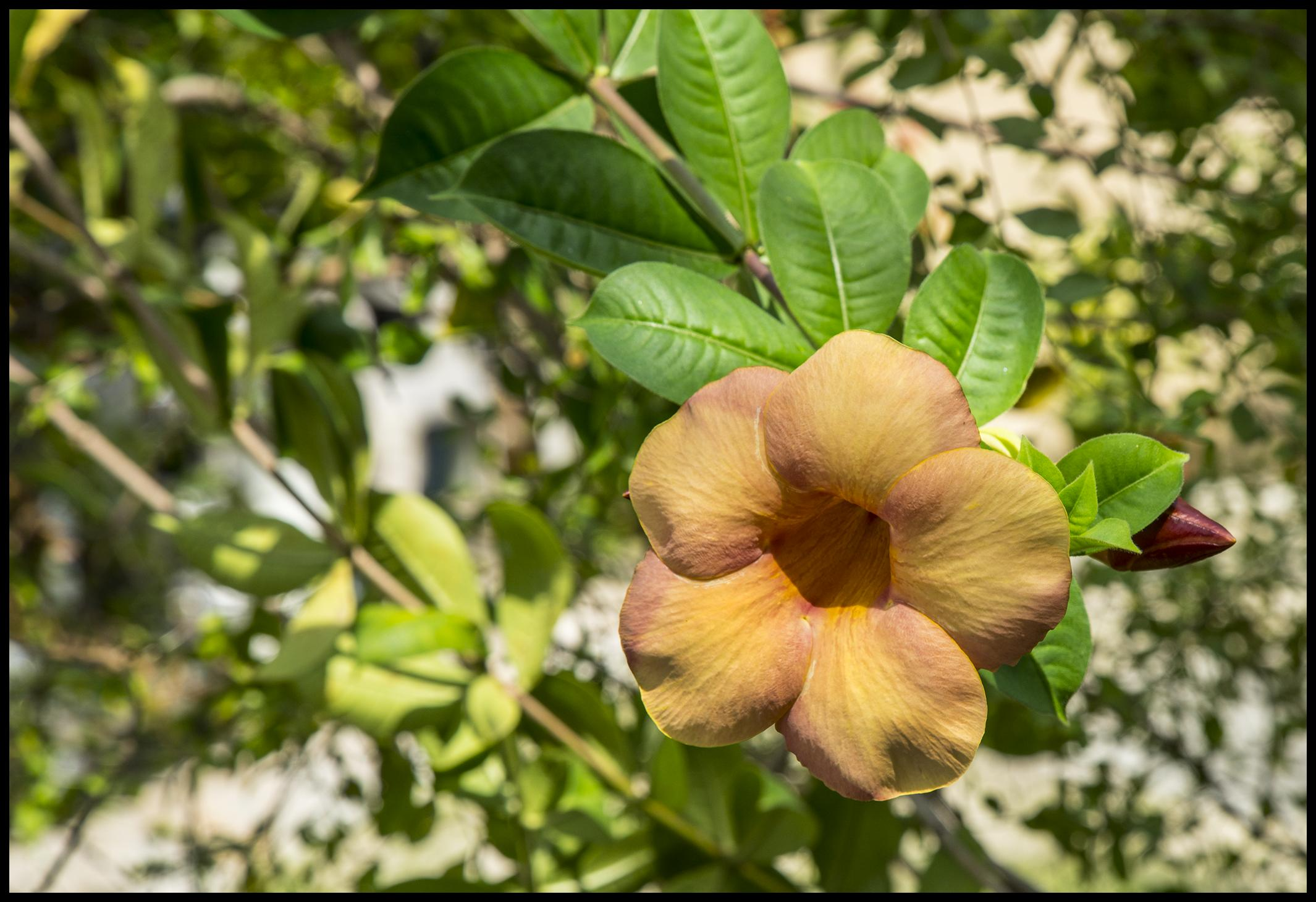 Penang Alamanda